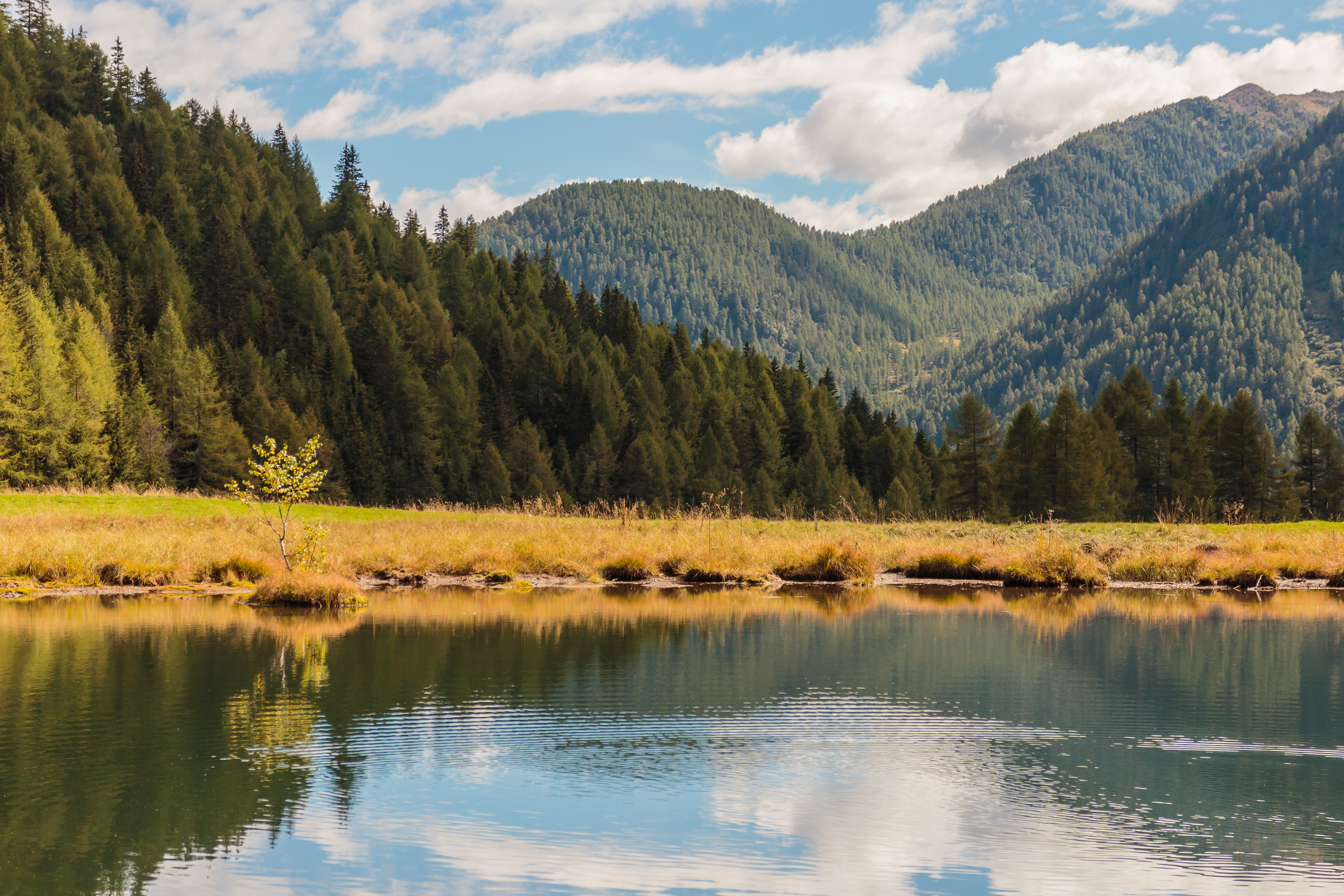 Mountain walk from Pejo to Lago Covel (1,839 m) in the Stelvio National Park (Italy). Lago Covel (1,839 m).